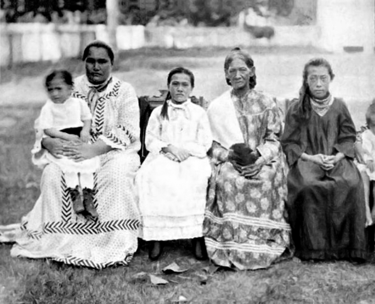 The Royal family of Huahine at the end of XIXth century